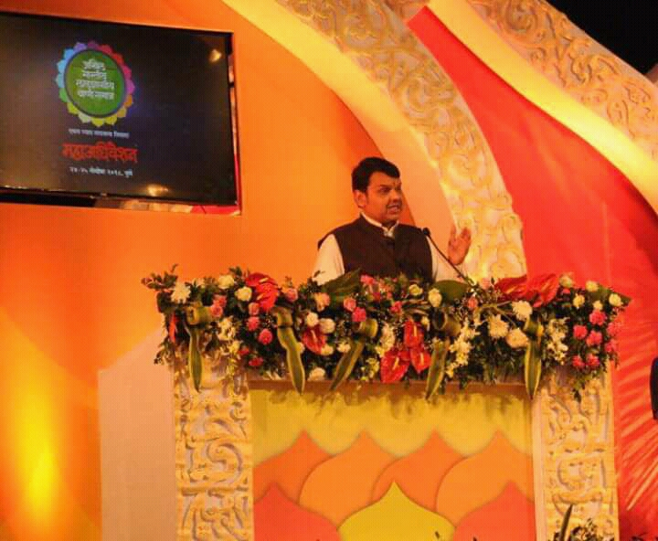 Ladshakhiy Wani Samaj Mahaadhiveshan 2018 Devendra Phadanvis